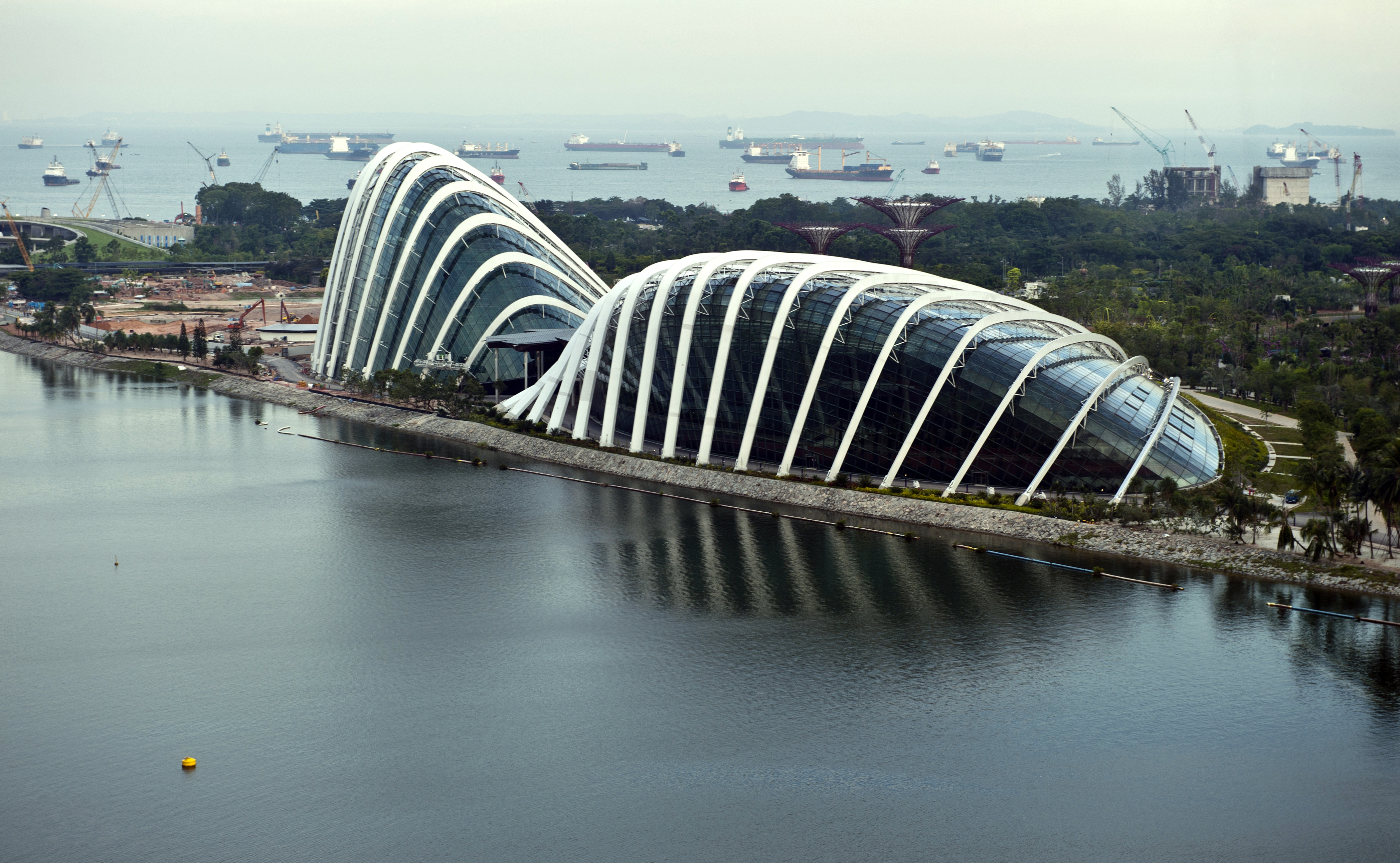 An aerial view of the Cloud Forest and Flower Dome at Gardens by the Bay, Singapore.